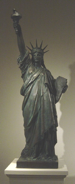 Statue of Liberty Enlightening the World by Frederic-Auguste Bartholdi in Metropolitan Museum of Art in New York city. The statue is about 5 feet tall.